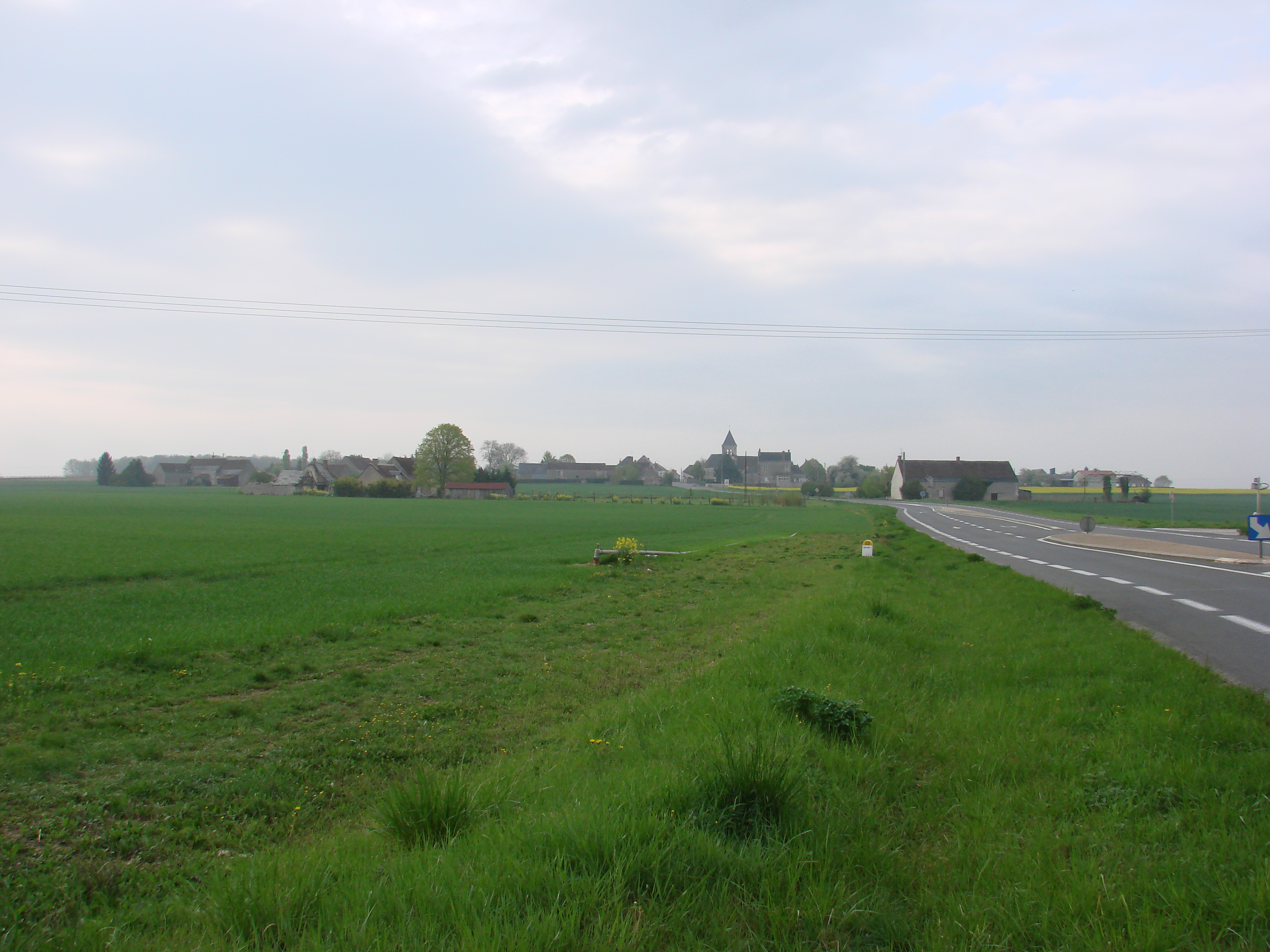 Sublaines (France, département of Indre-et-Loire): a view